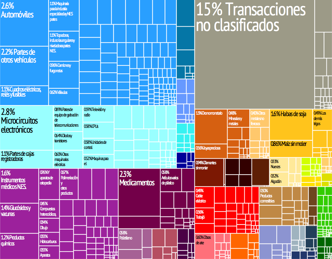 Representación gráfica de los productos de exportación del país en 28 categorías codificadas por color. Cada recuadro de color representa un producto y su tamaño es proporcional a la participación que ese producto representa dentro del total de las exportaciones del país.